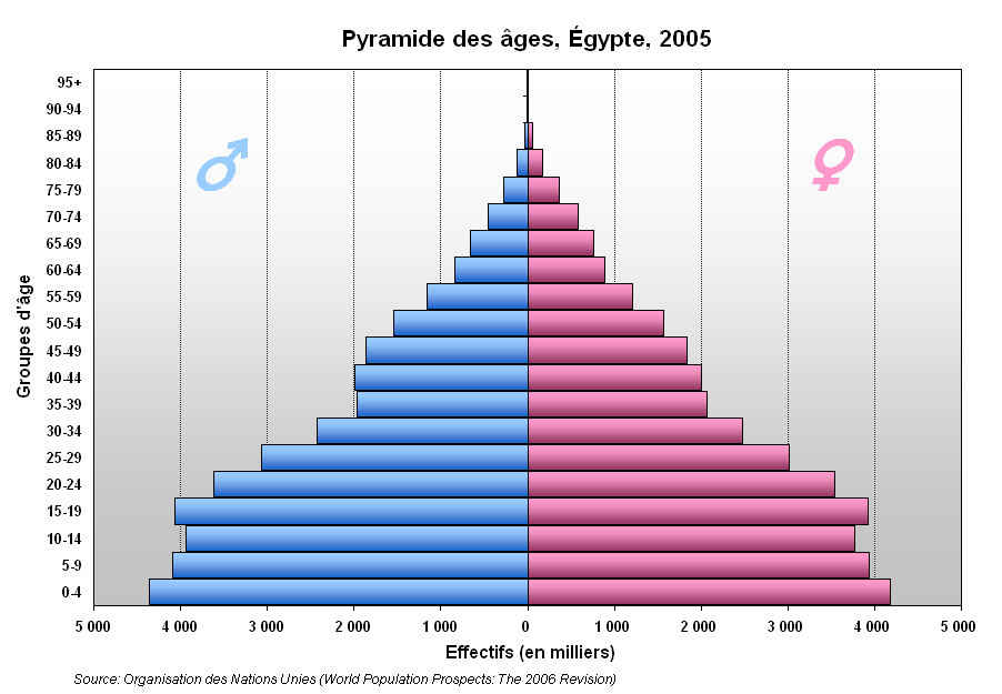 Egypt Population pyramid, 2005